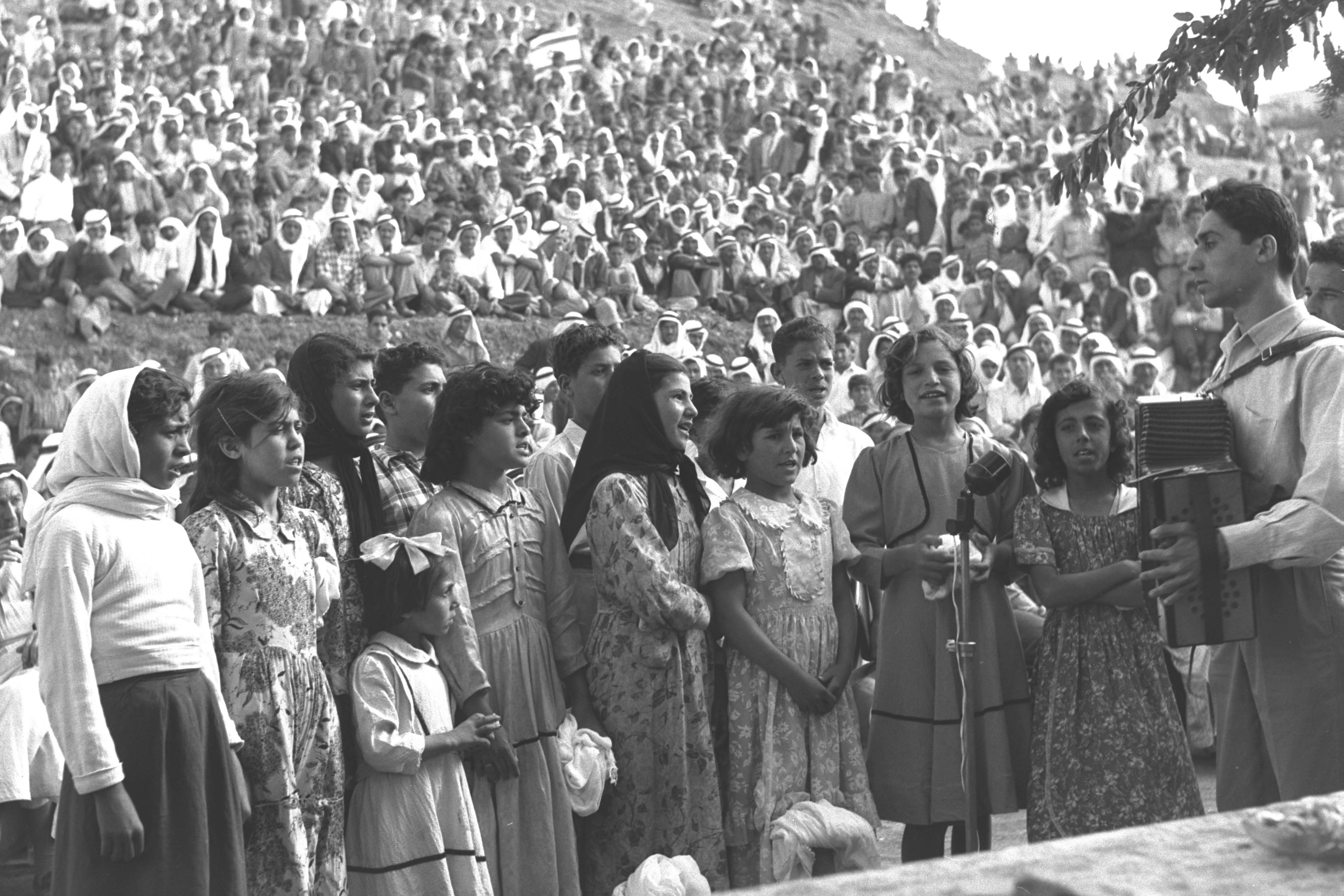 Arab choir sings at Independence Day celebration held at Um El Fahm.